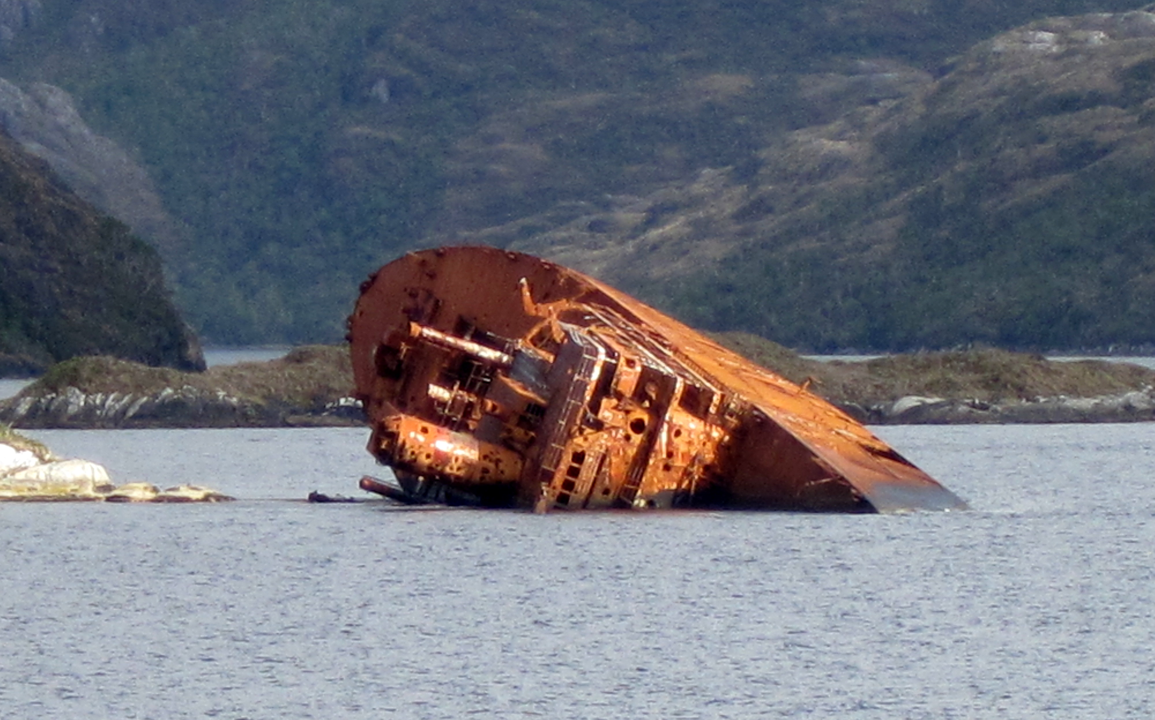 Santa Leonor shipwreck rusting away since 1969 in Canal Smyth, Chile